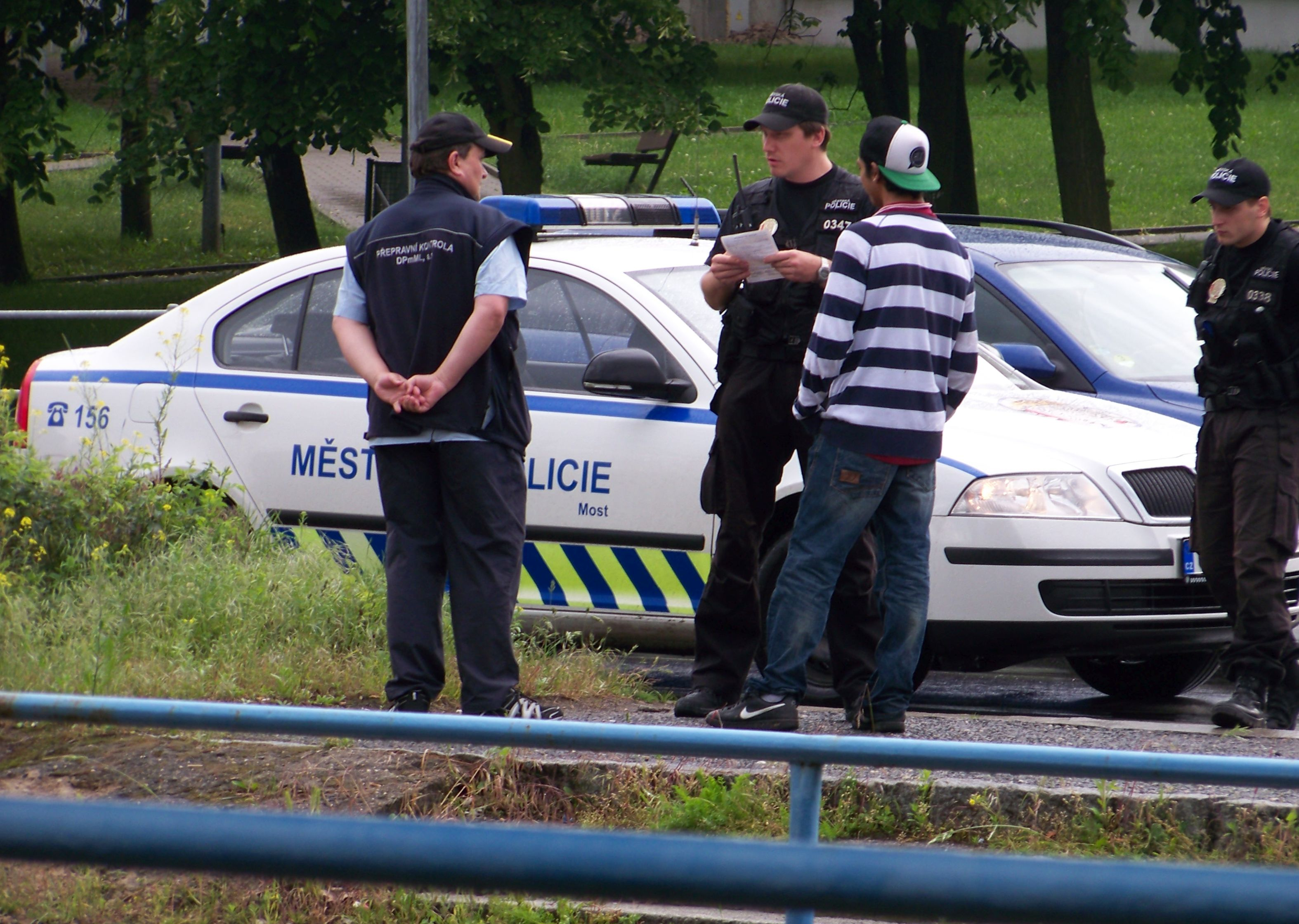 Most, Most District, Ústí nad Labem Region, Czech Republic. Rudolická street, tram stop "Most, nádraží". A ticket inspektor and municipal police officers with a "black passenger" (fare-dodger).